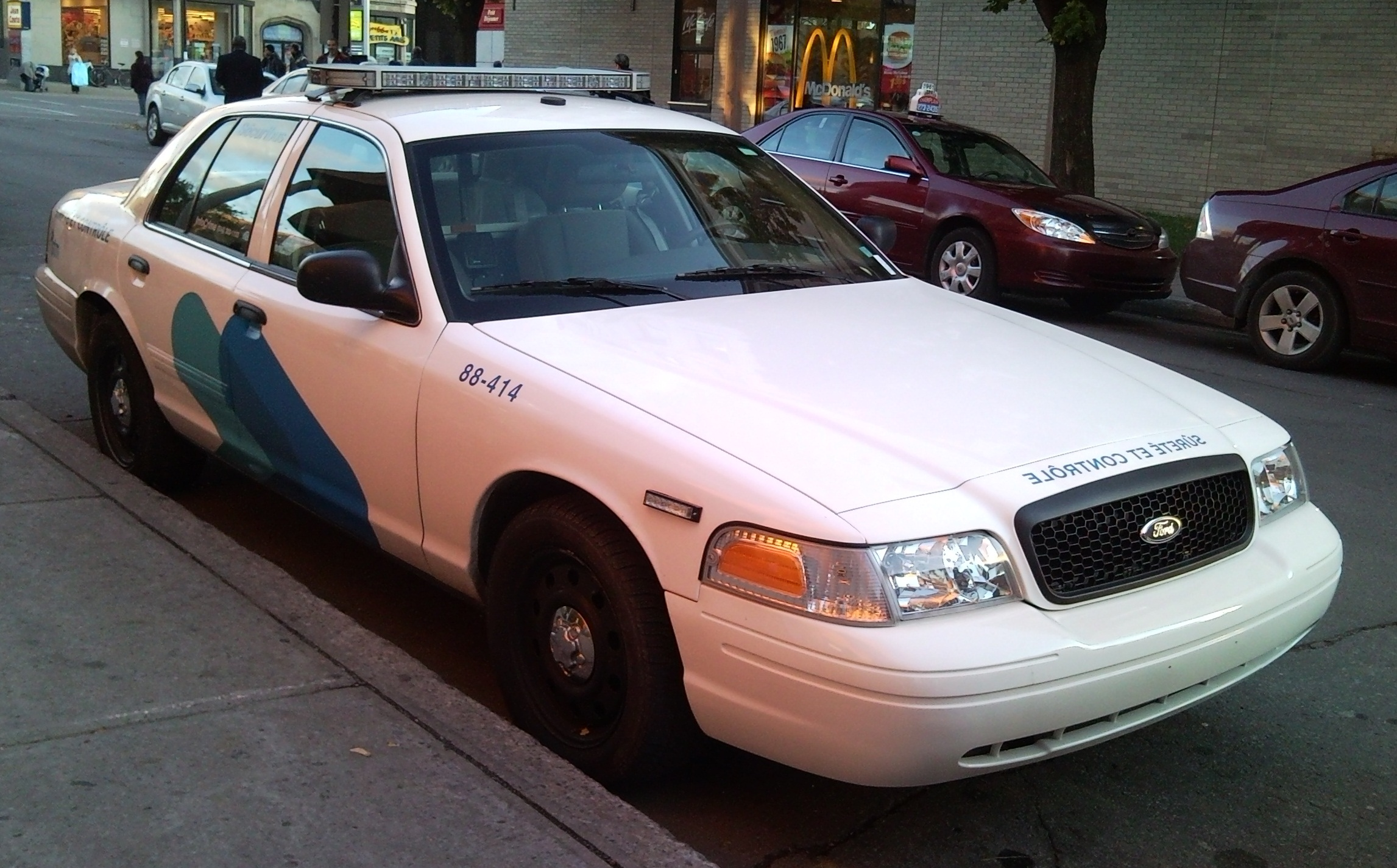 Ford Crown Victoria STM photographed in Montreal, Quebec, Canada.